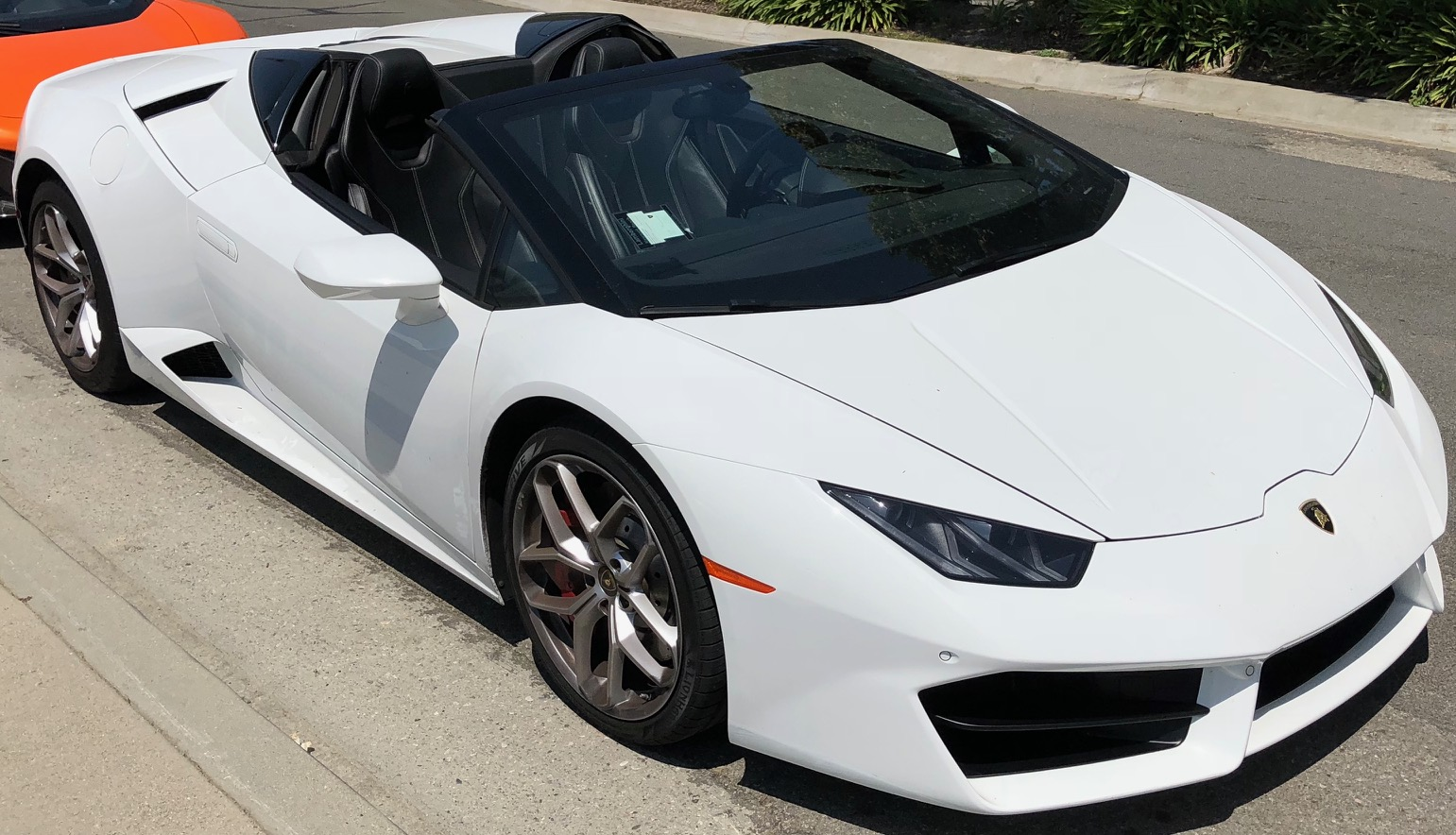 Lamborghini Huracan LP 610-4 Spyder